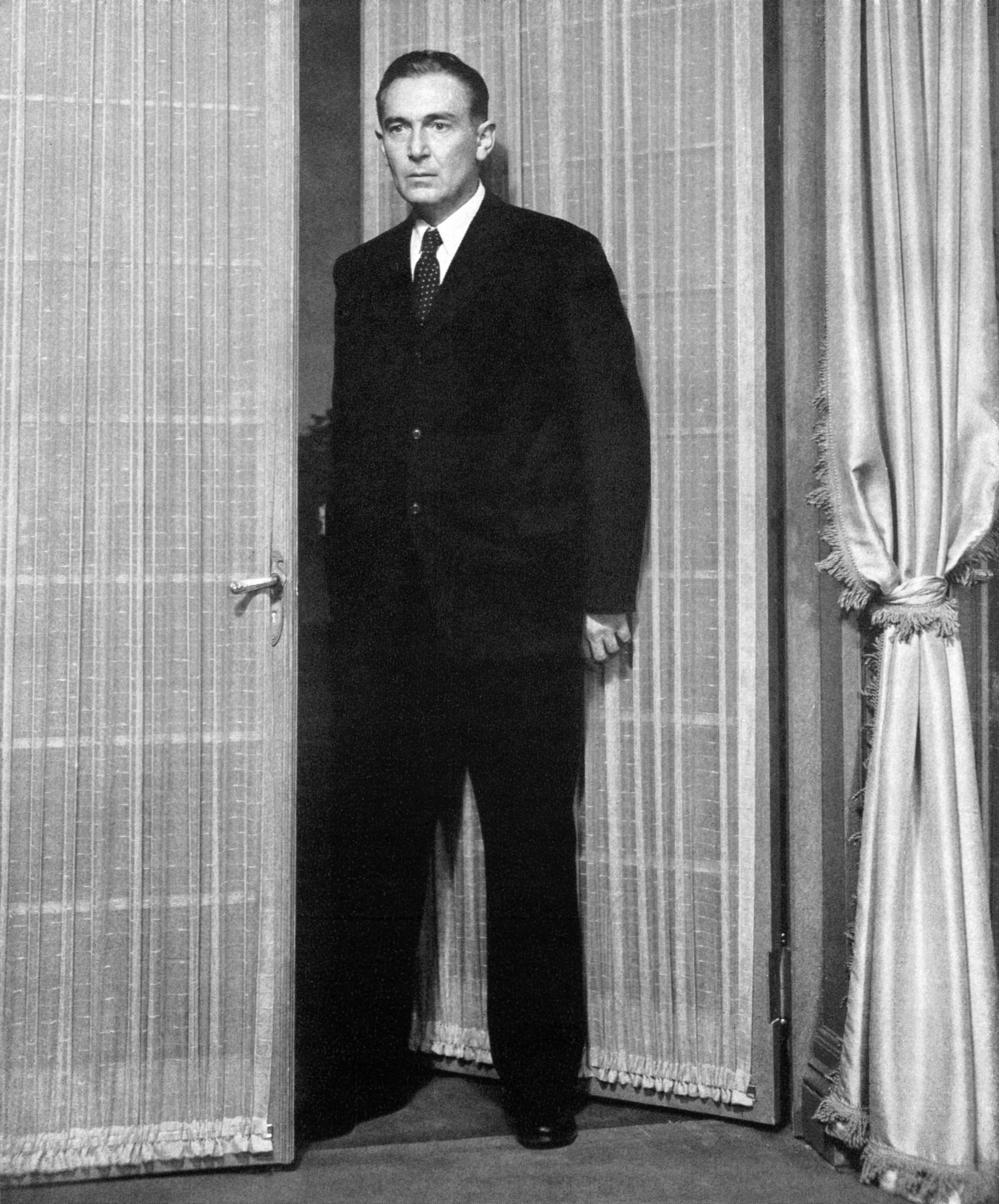 Promotional photograph for the original Broadway production of Watch on the Rhine, starring Paul Lukas as Kurt Mueller Caption reads as follows: Paul Lukas as Kurt Mueller, soldier in the anti-Nazi underground army, in Herman Shumlin's production of Lillian Hellman's Watch on the Rhine